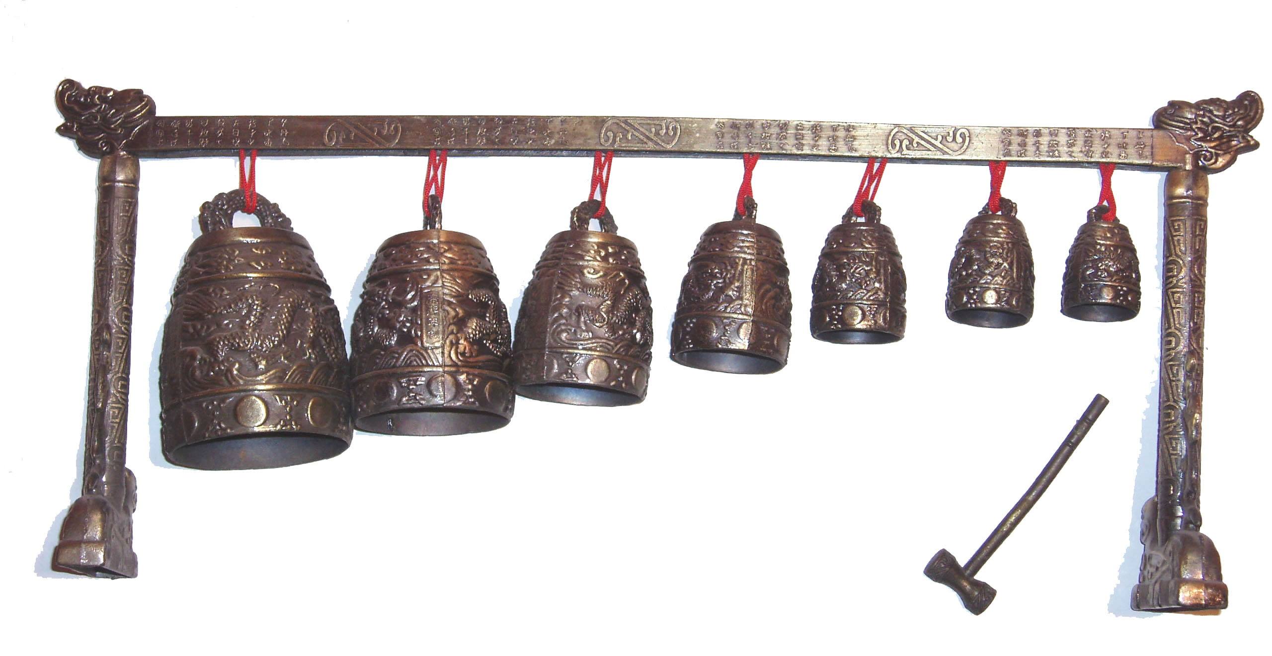 A Chinese ancient musical instrument, series bells (duplicated)